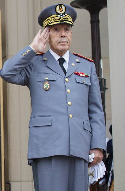 Cropped version of File:Bouchaib Arroub and Martin Dempsey.jpg 18th Chairman of the Joint Chiefs of Staff Army Gen. Martin E. Dempsey and Moroccan Inspector General of the Armed Forces Gen. Bouchaib Arroub salute during the playing of the National Anthem in front of the Pentagon, Nov., 13, 2014. (DoD photo by Mass Communication Specialist 1st Class Daniel Hinton/Released)